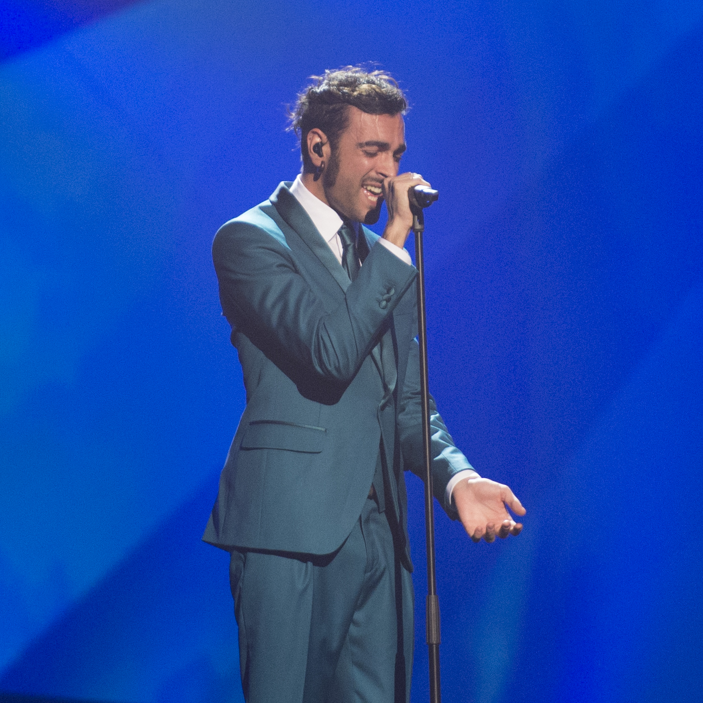 Marco Mengoni representing Italy with the song "L'essenziale" during the first dress rehearsal of the final of the Eurovision Song Contest 2013 in Malmö. (Help translate this text)